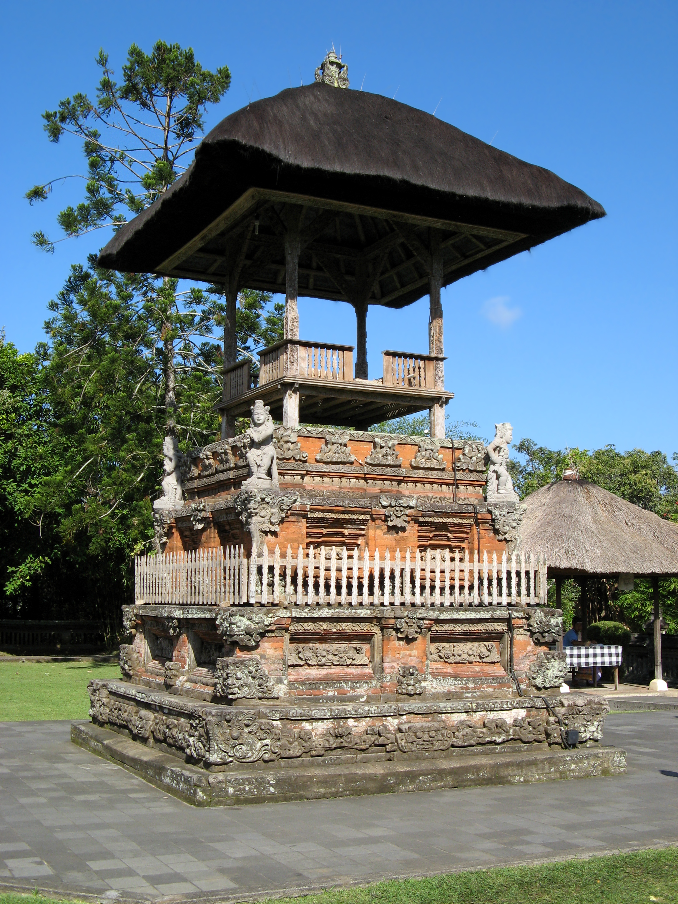 Drum Tower. Pura Taman Ayun, Mengwi. This drum tower occupies the second courtyard of the temple complex.